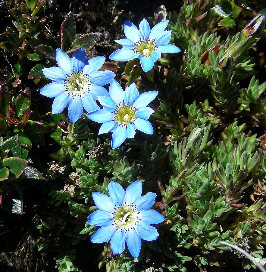 From a high Paramo in Los Nevados Park, Colombia. In context at